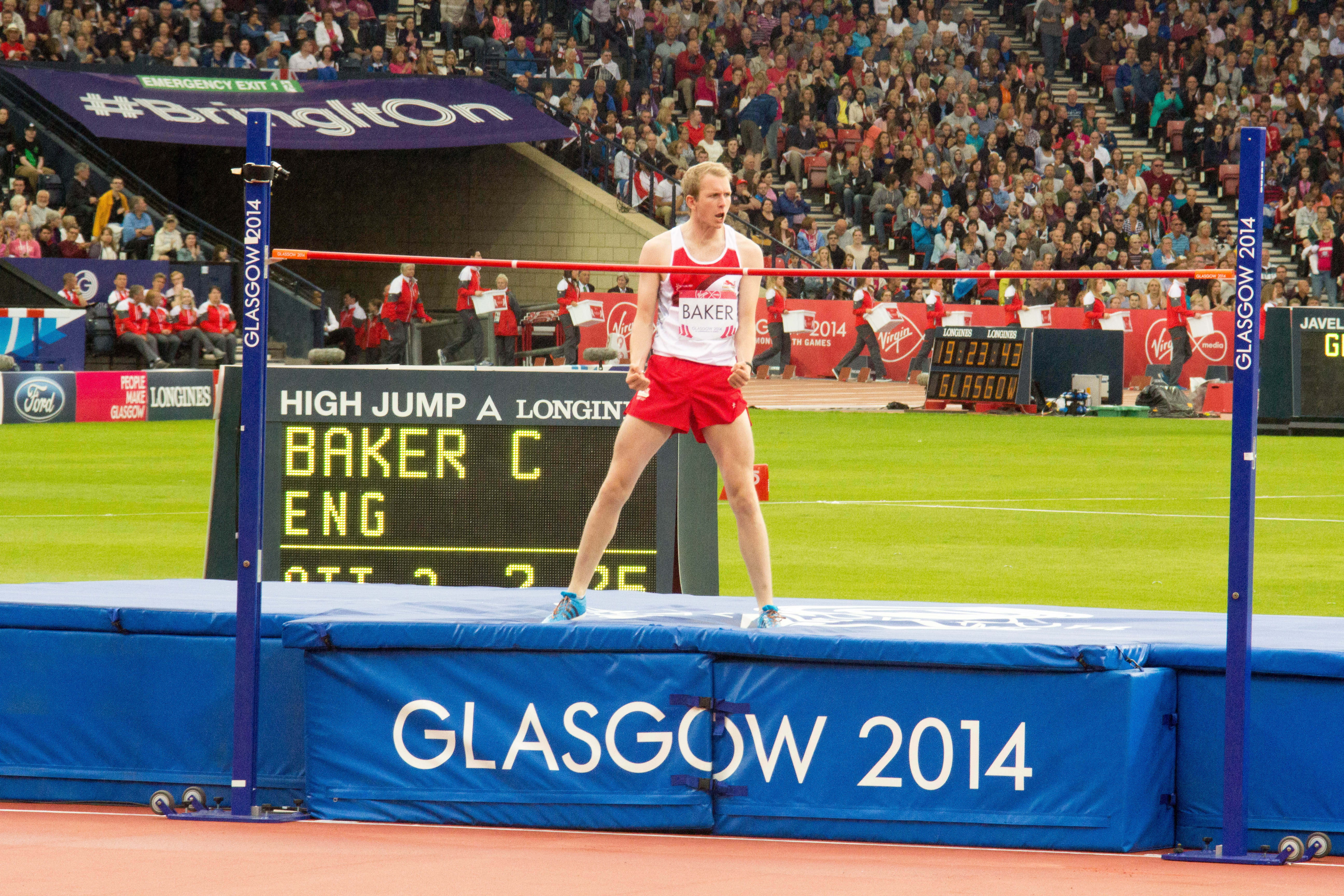 Commonwealth Games 2014 - Athletics Day 4 2014 Commonwealth Games Day 4: Athletics